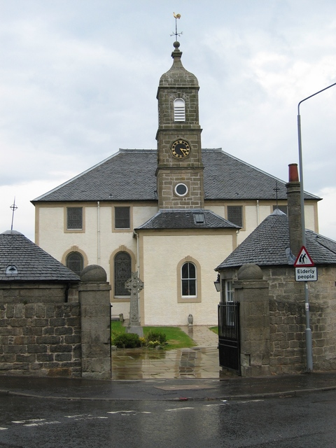 Neilston Parish Church The Church of Scotland parish church in Neilston has been on this site since 1163. It was built by Sir Robert de Croc. The only remaining ancient part of the building is a Gothic window in a back wall and a burial vault. In 1796 the roof was taken off and another storey added making room for a gallery to accommodate the growing population. The graveyard has a stone dating back to the 15th century.